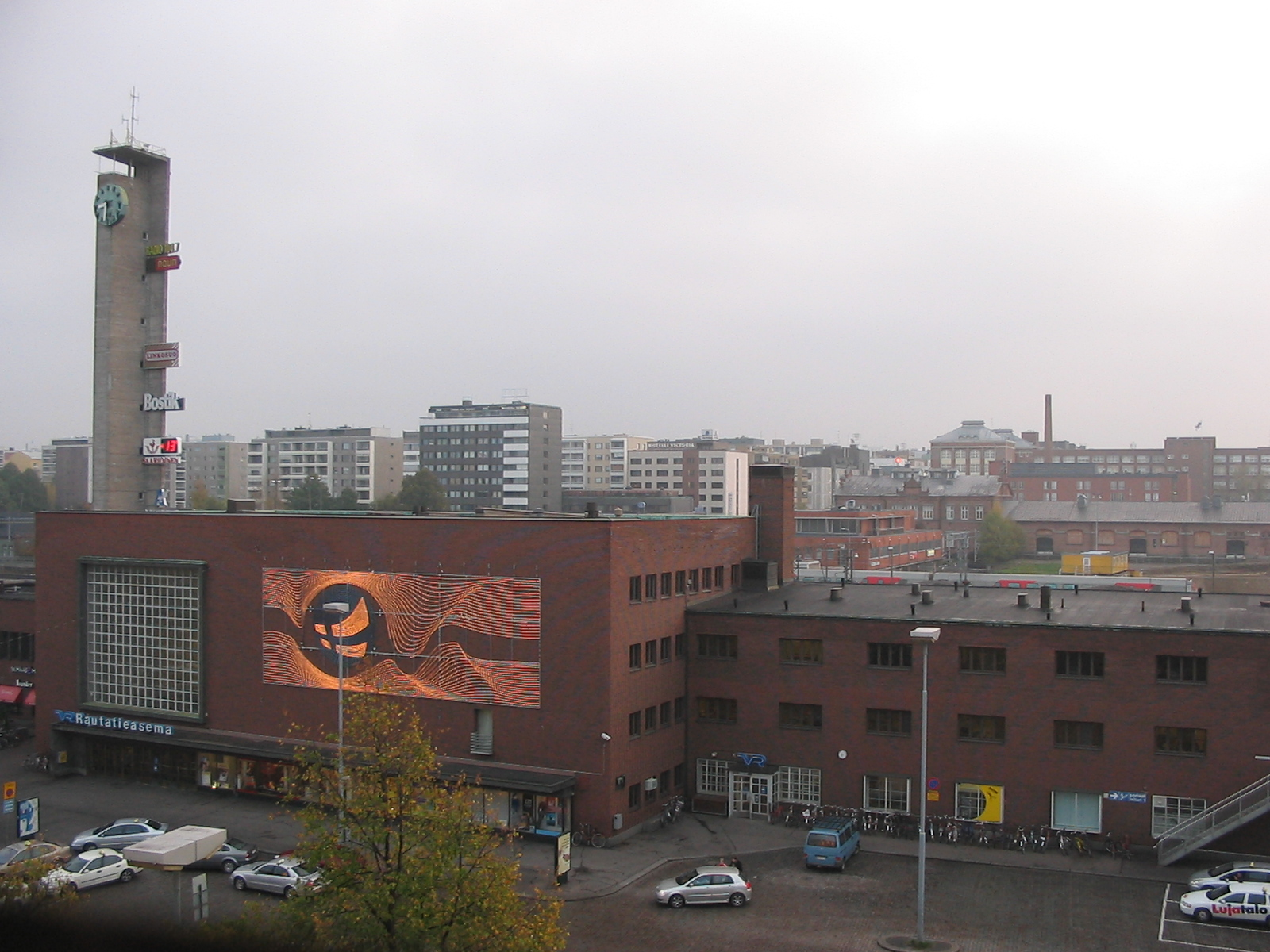 Tampere Railway Station, view from Sokos Hotel